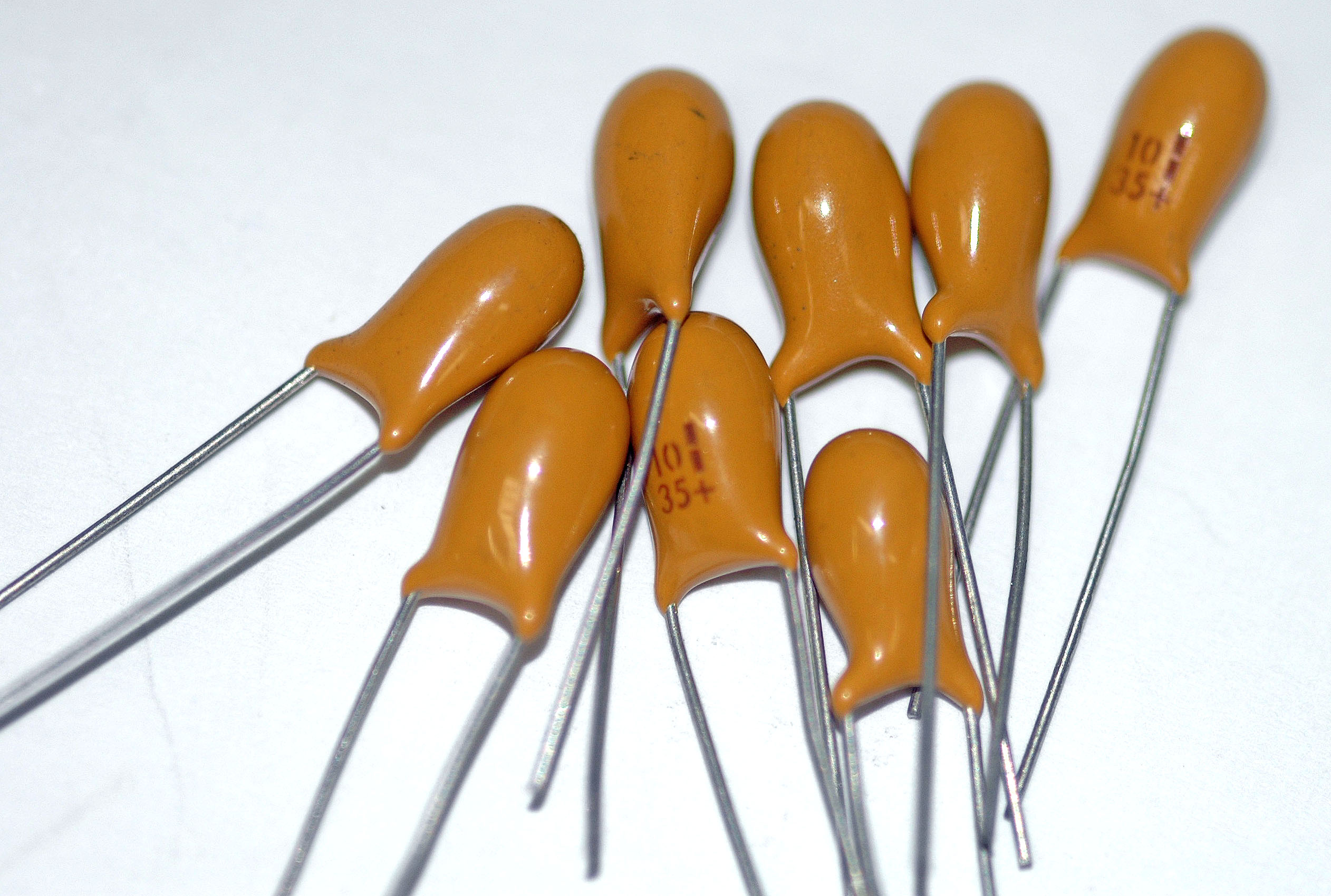 Several 10uF x 30 VDC rated tantalum capacitors.